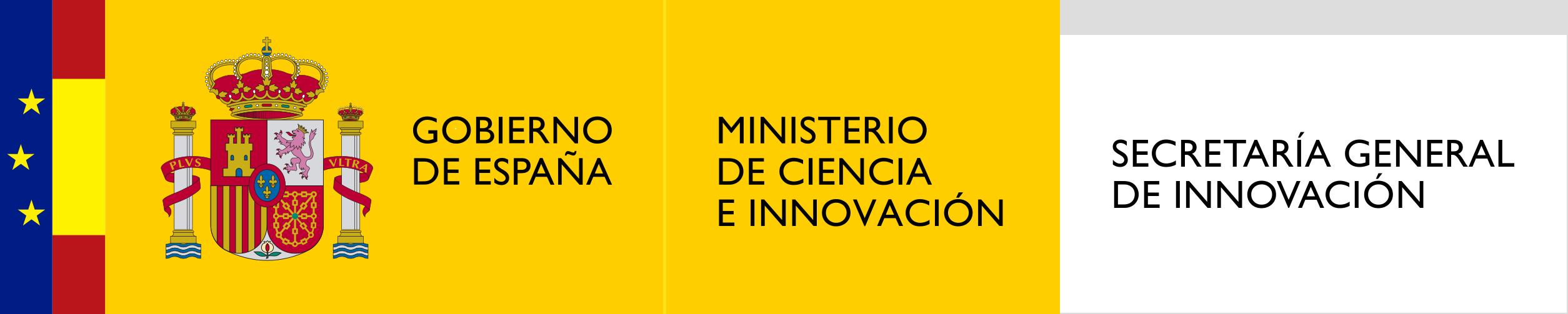 Logo of the General Secretariat for Innovation of Spain.